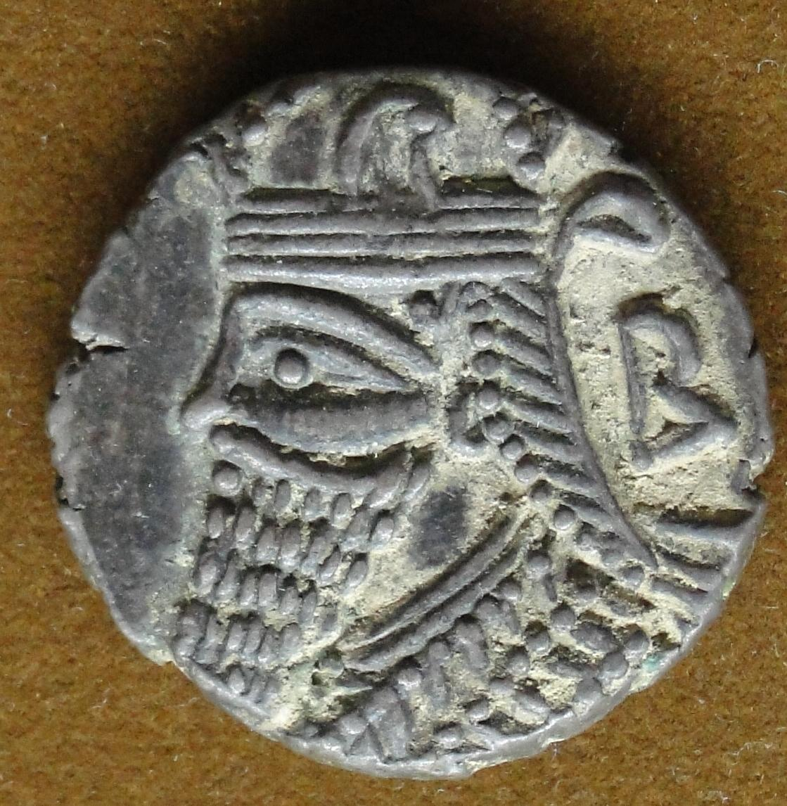 Vologases V Parthian silver coin